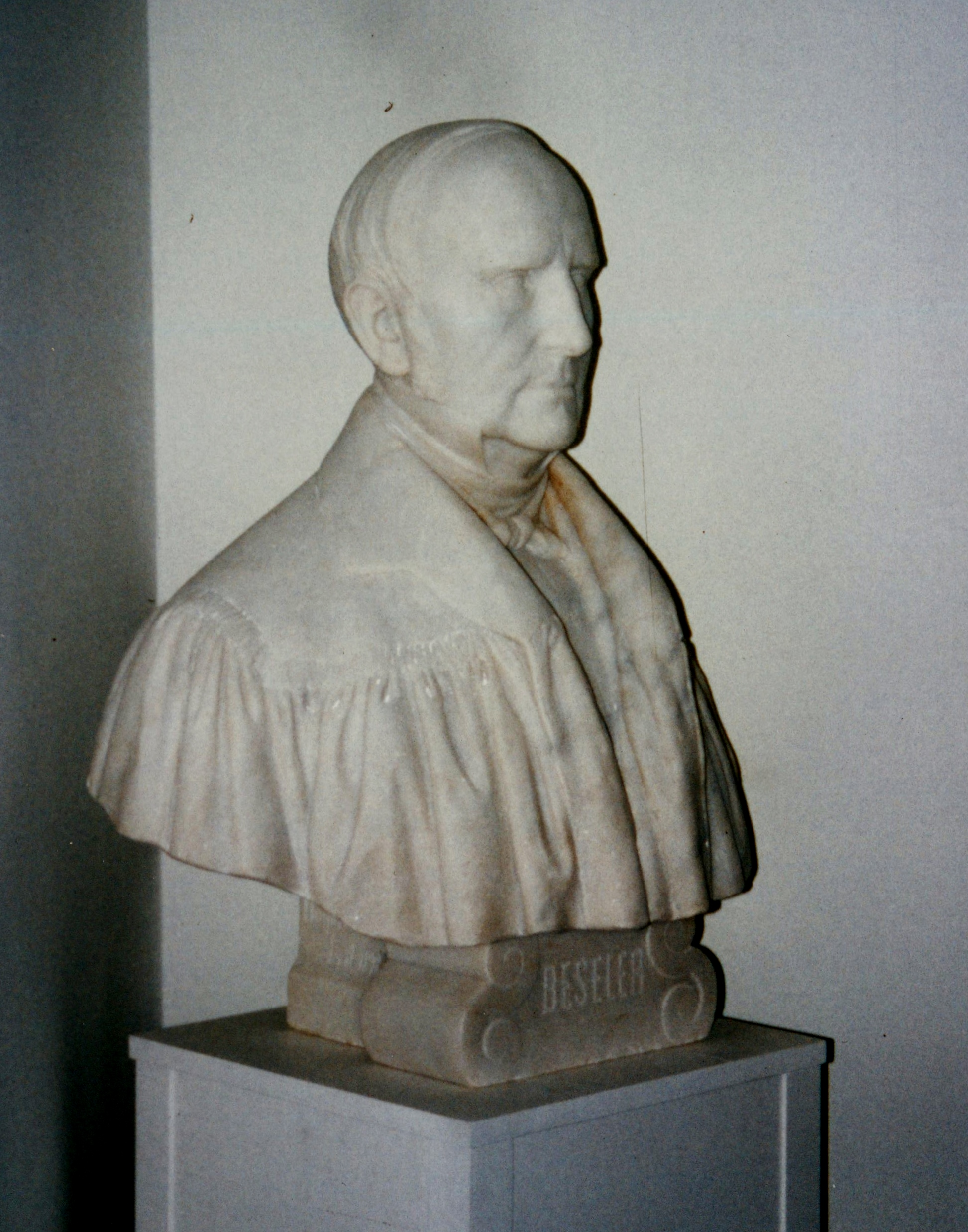 Bust of Georg Beseler by Hugo Berwald 1898